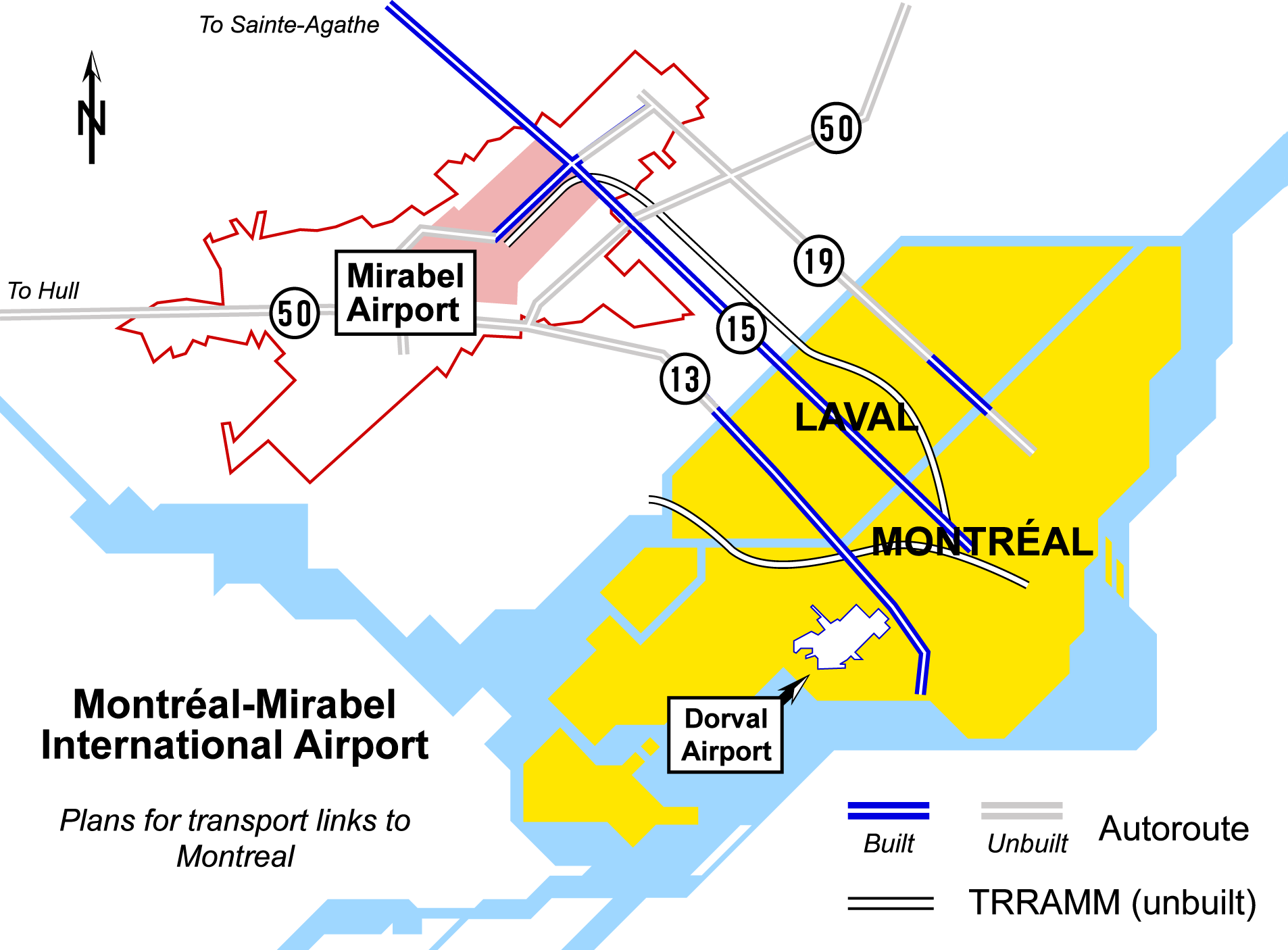 Map showing initial plan for transport links serving the area around Montreal-Mirabel International Airport. The A-50 was originally planned to bypass Mirabel to the south, whereas today's A-50 goes through Mirabel. Also, the TRRAMM line is shown separately from the Deux-Montagnes commuter rail line (which itself was also considered for the TRRAMM alignment). The TRRAMM would have followed part of what is now the Blainville-Saint-Jerome commuter rail line with a spur into the airport.